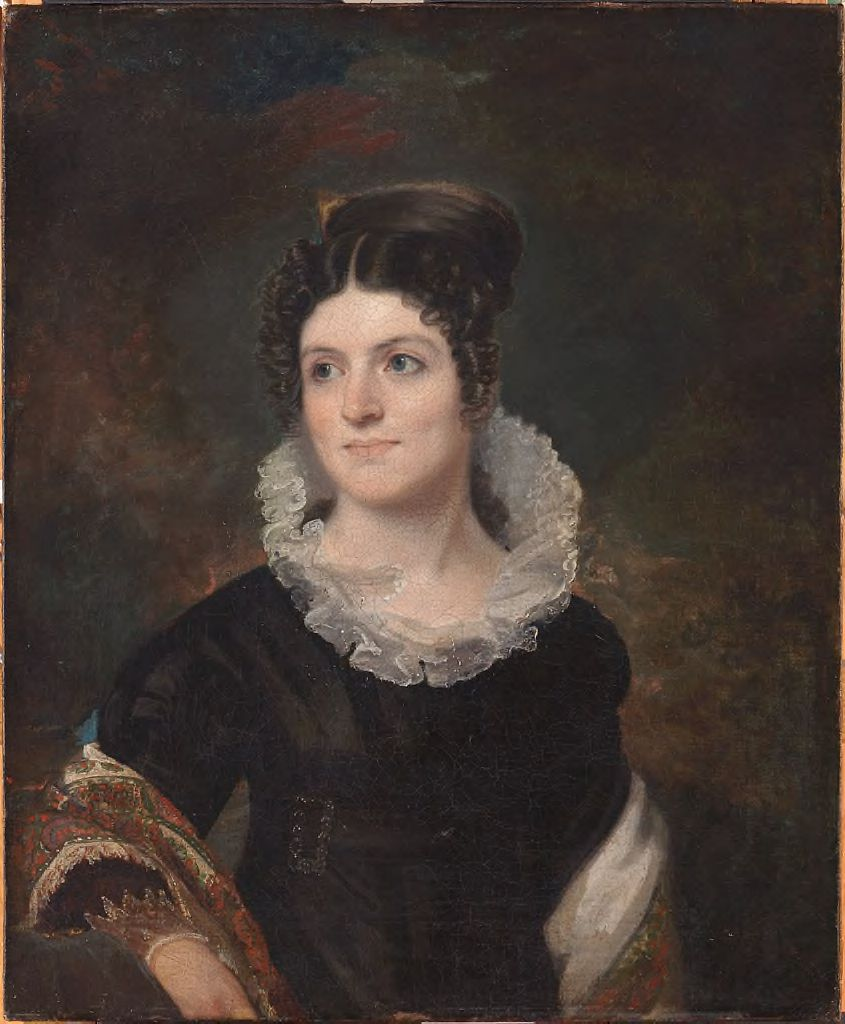 Courtesy of the Harvard University Portrait Collection, Gift of Mr. and Mrs. William Lawrence.